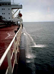 Ship pumping ballast water